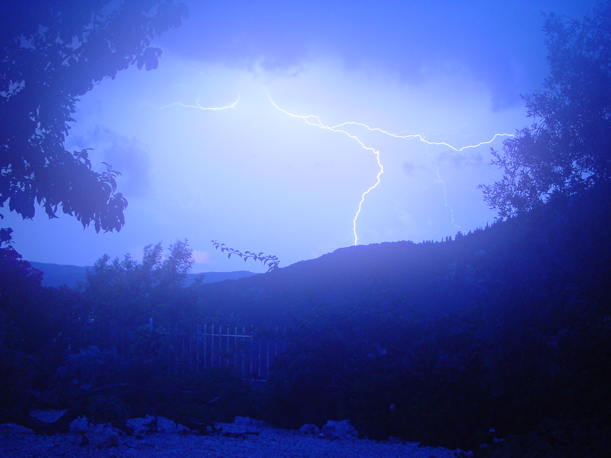 Lightning strikes a mountain top.